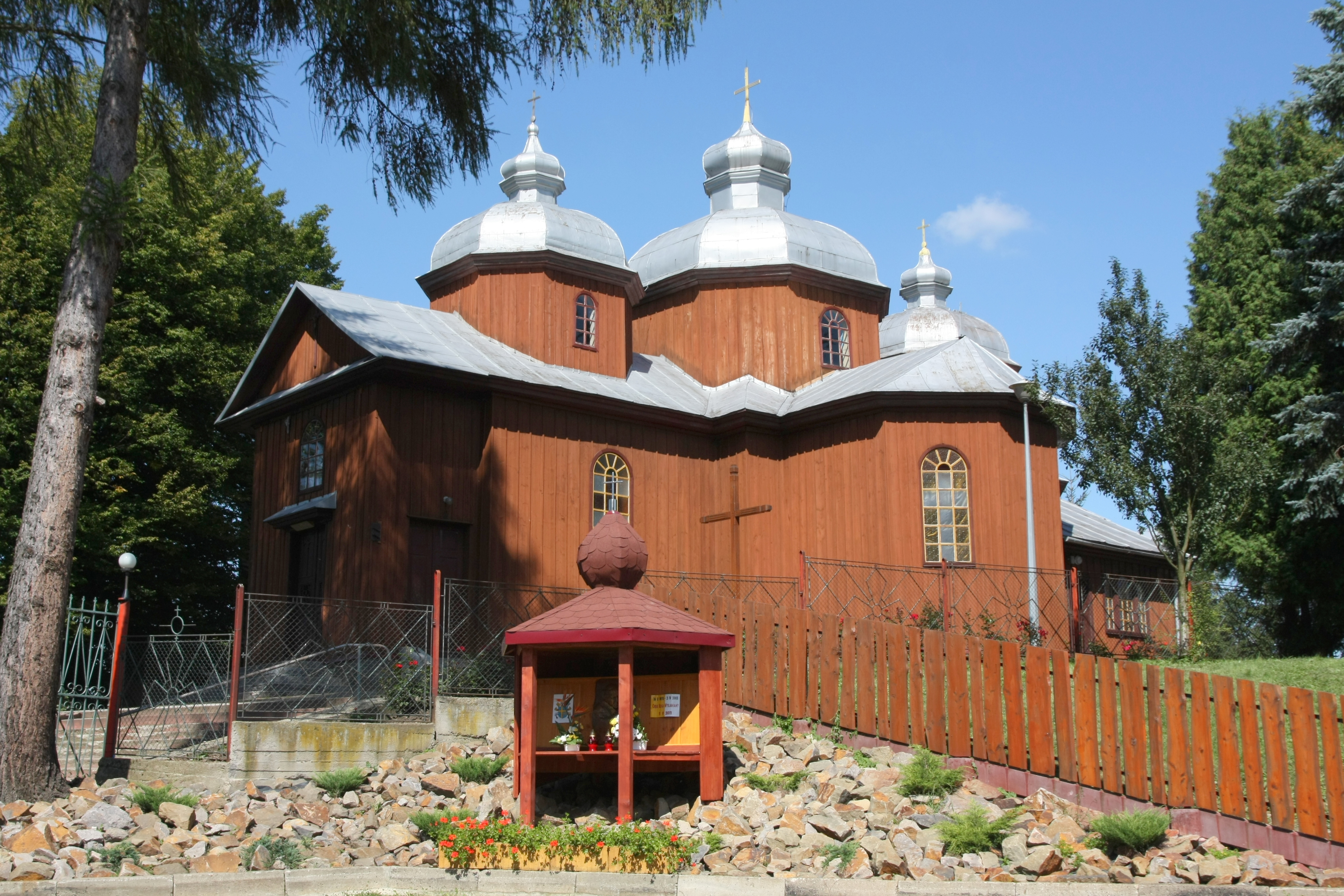 Saints Peter and Paul church in Jurowce.